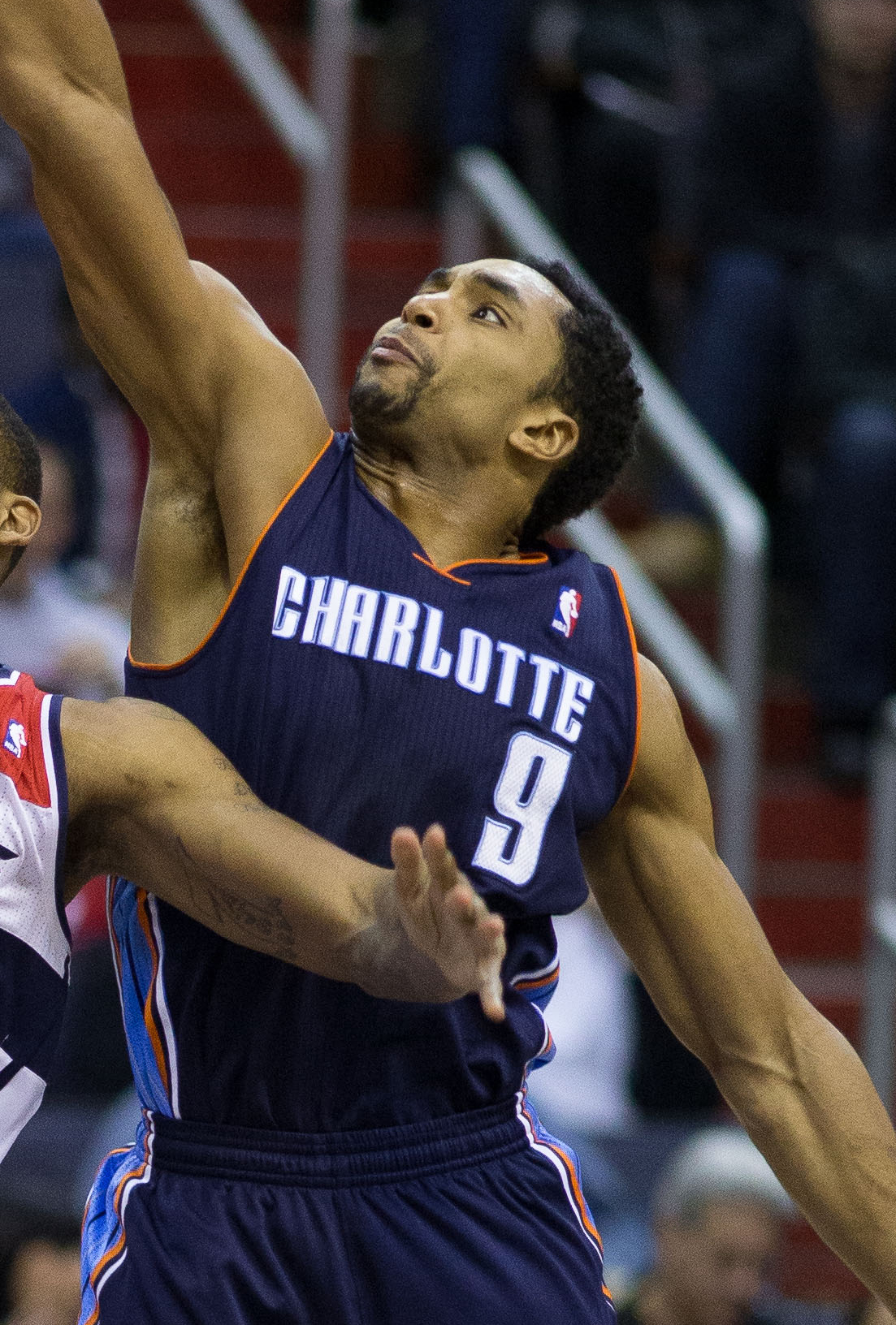 Gerald Henderson, Charlotte Bobcats at Washington Wizards March 9, 2013